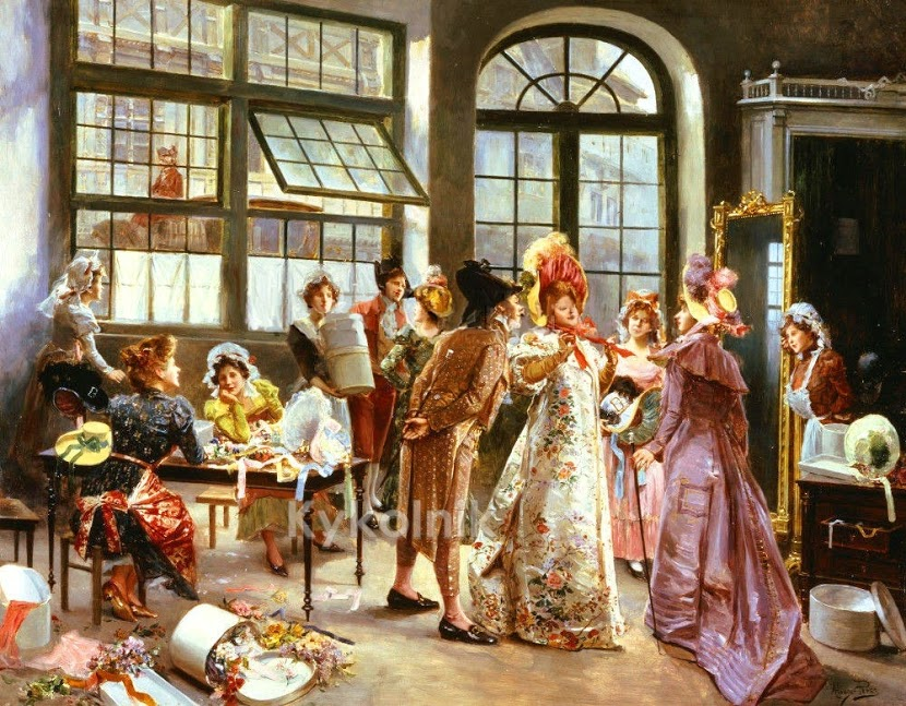 Alonzo Perez "At The Milliner's"